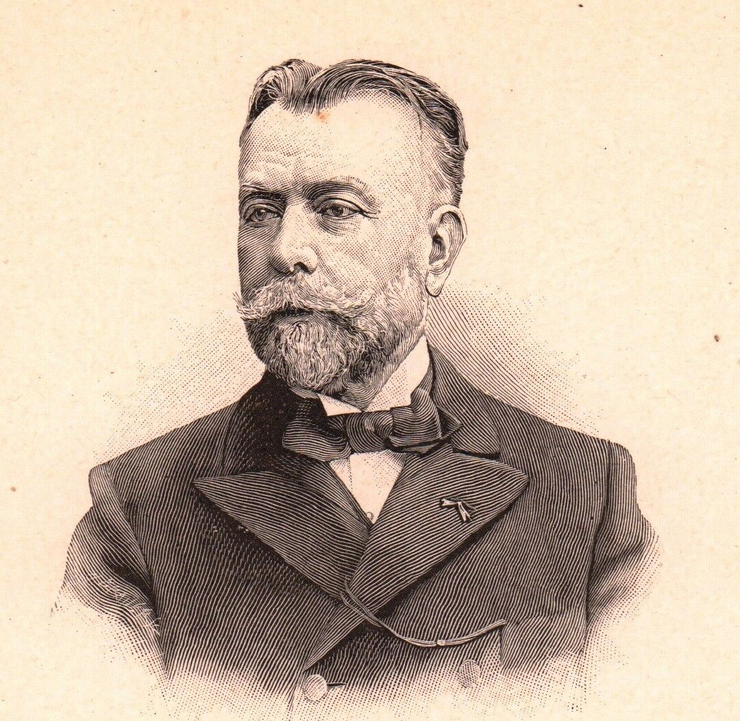 French physician Charles Abadie (1842-1932)